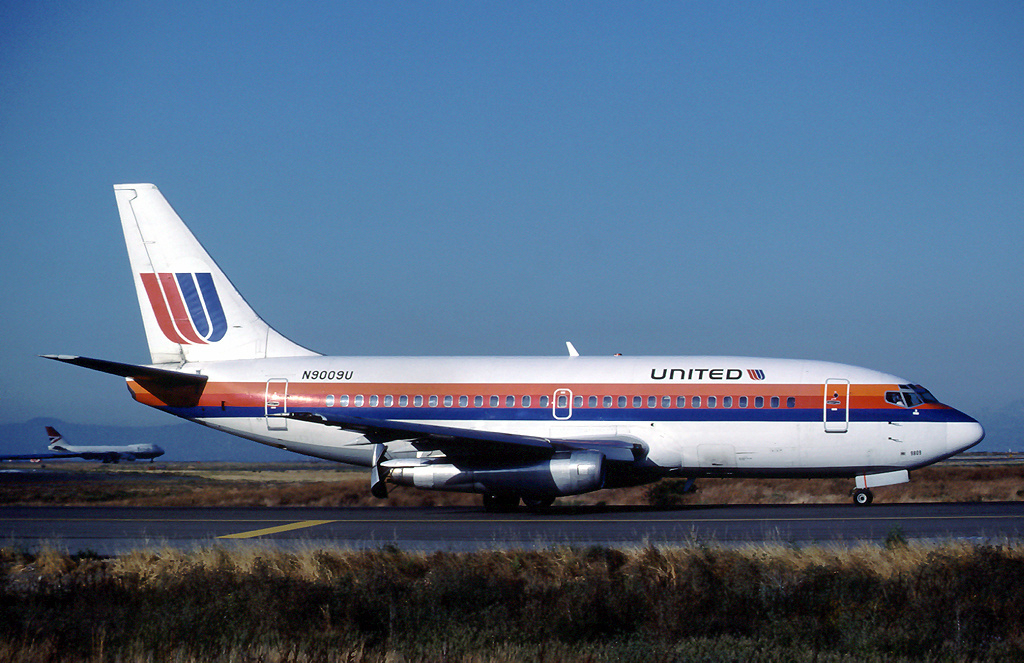 N9009U (cn 19047/24); first flight 22-04-1968, delivered 10-05-1968